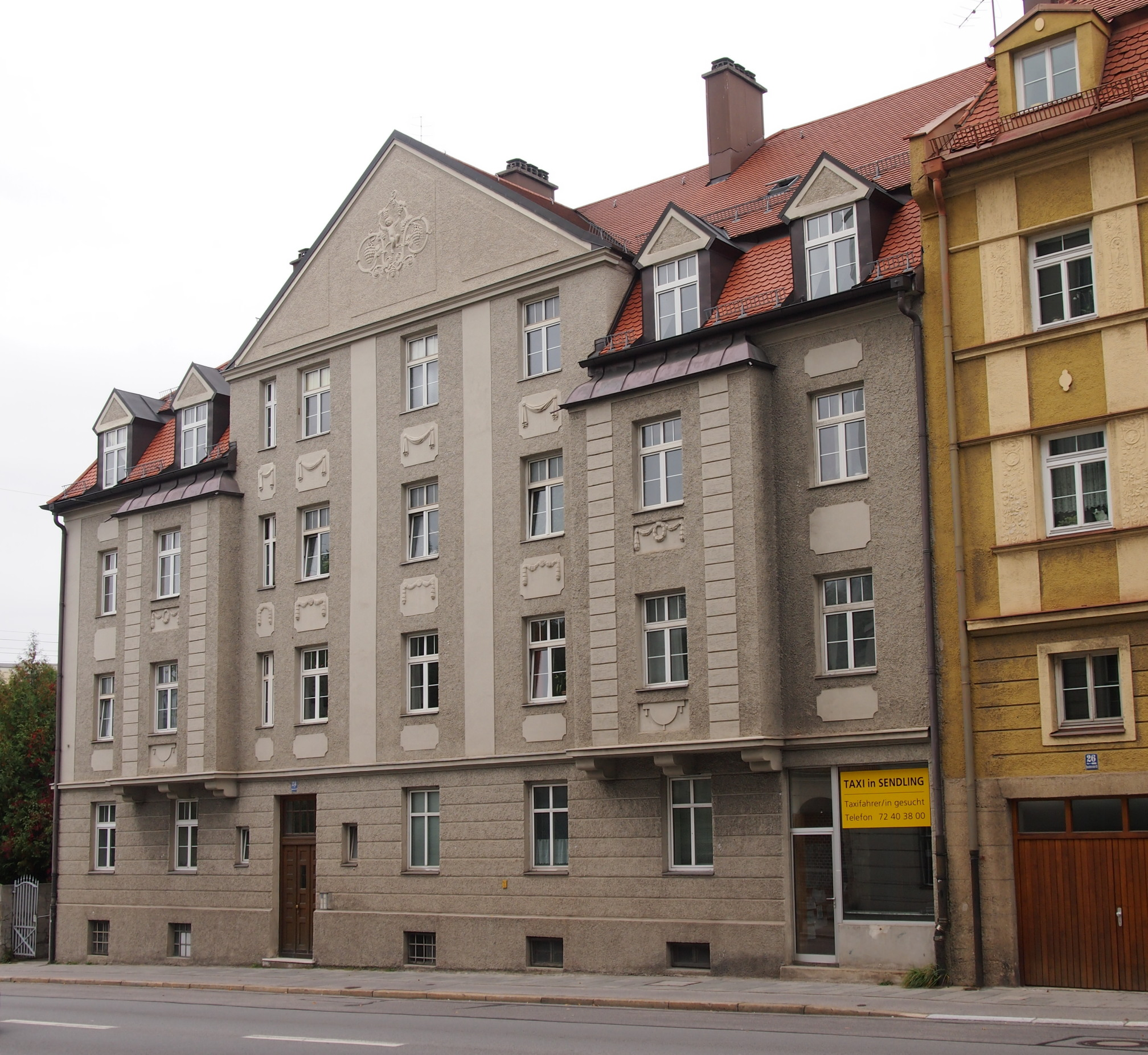 Mietshaus München Thalkirchen Boschetsrieder Str. 28This is a photograph of an architectural monument.